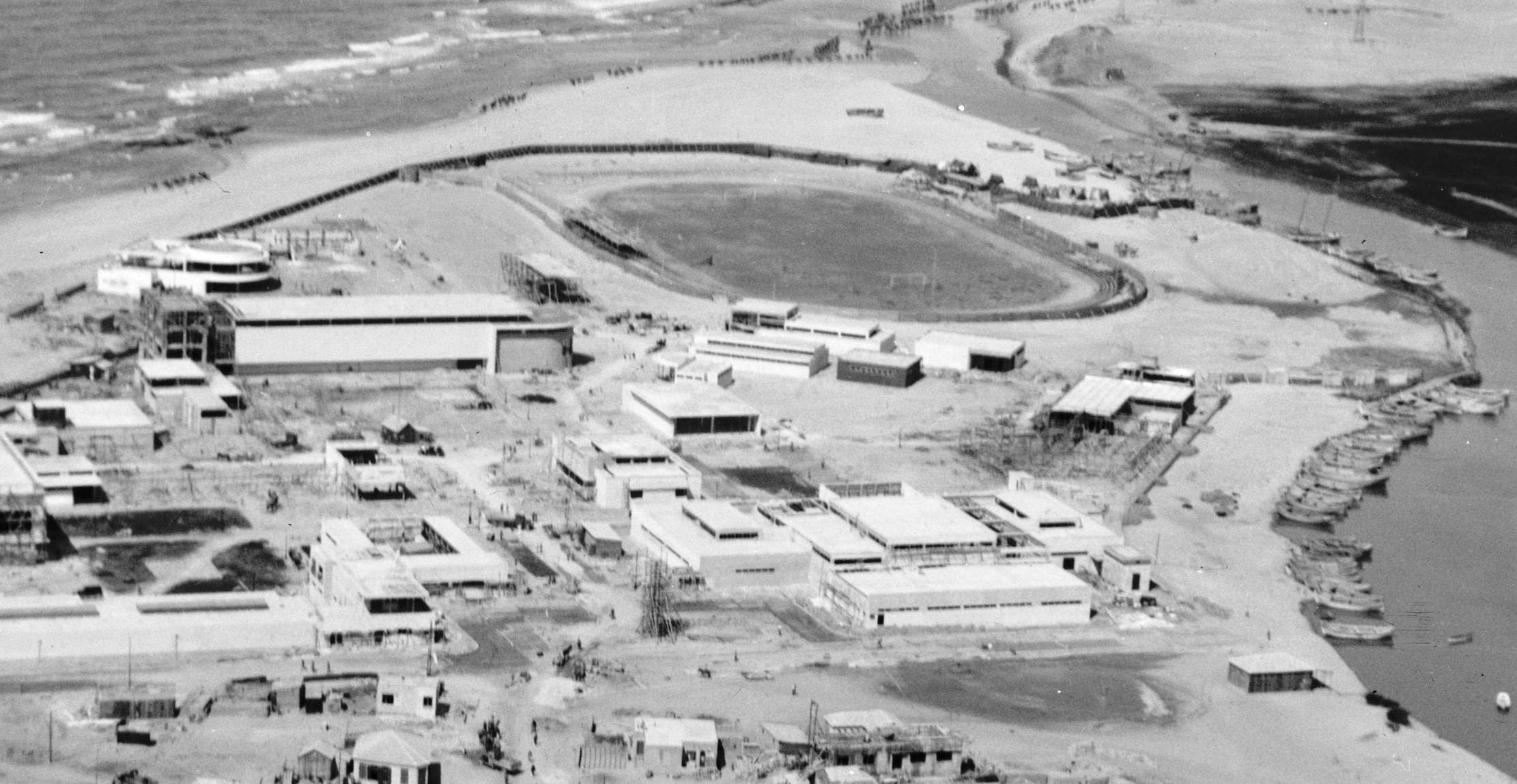 Air views of Tel Aviv